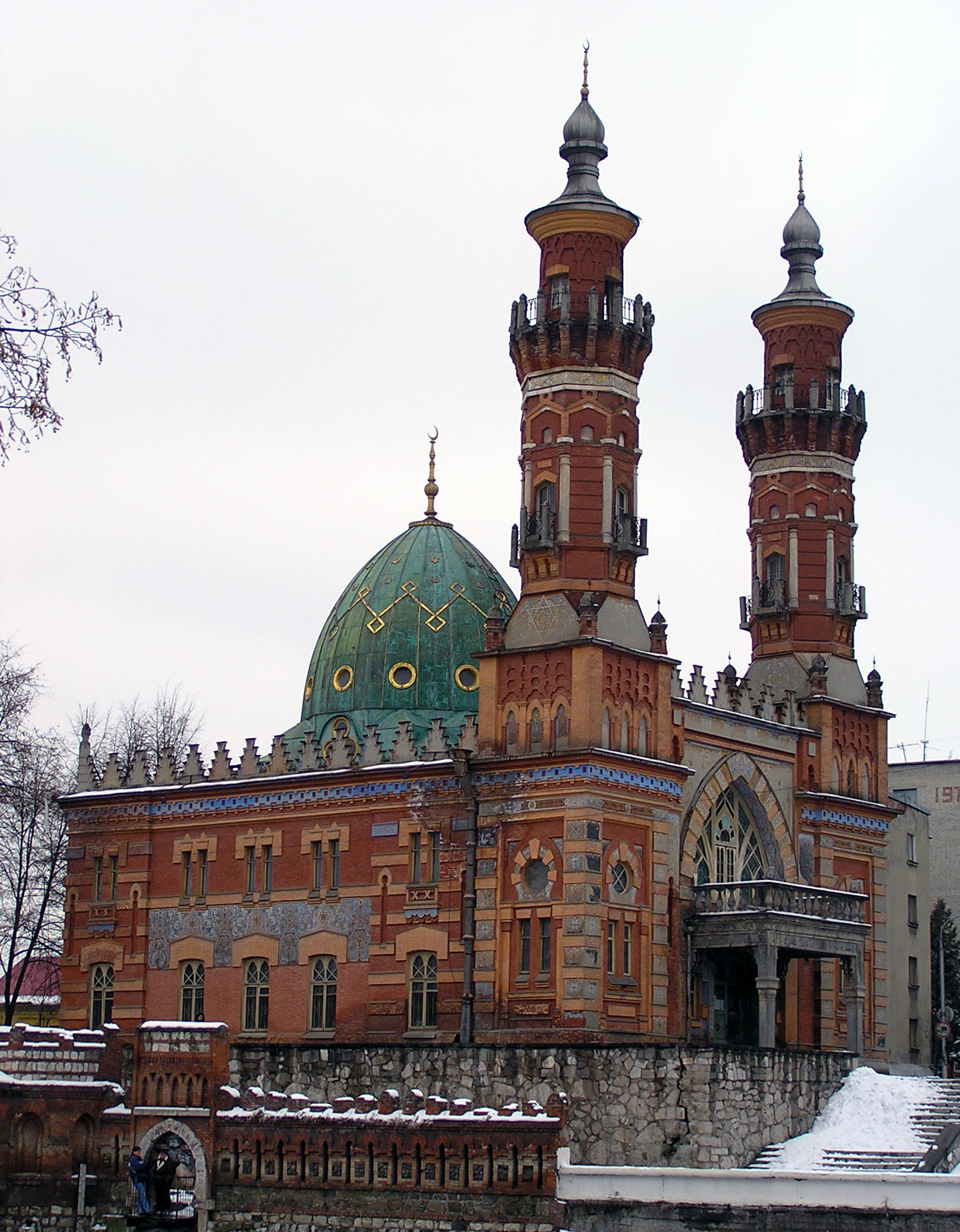 City's Mosque Summary Object: Vladikavkaz, Russia Description: City's Mosque